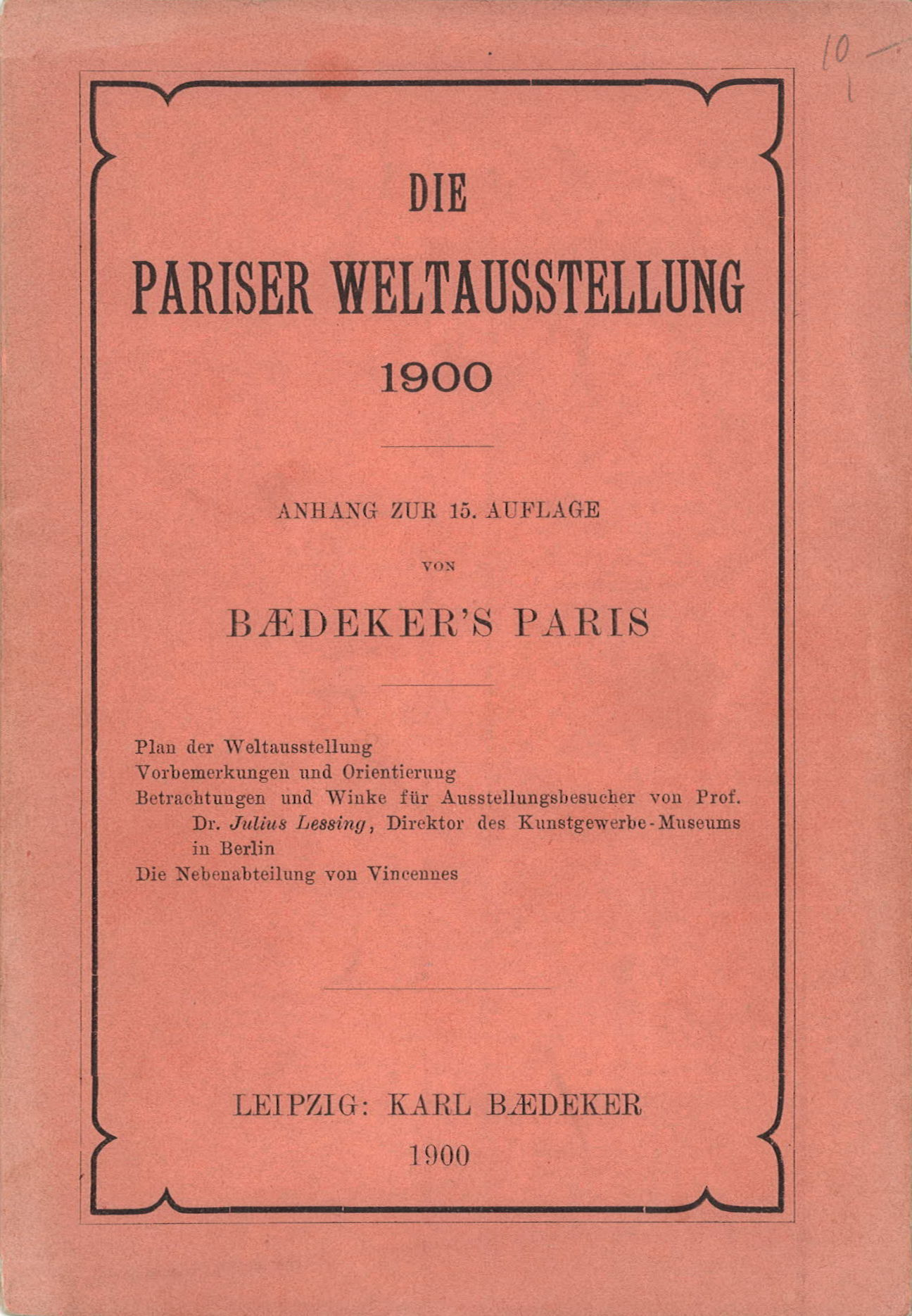 Scan of the frontcover of the Appendix of Baedekers Paris to the World's Exhibition 1900